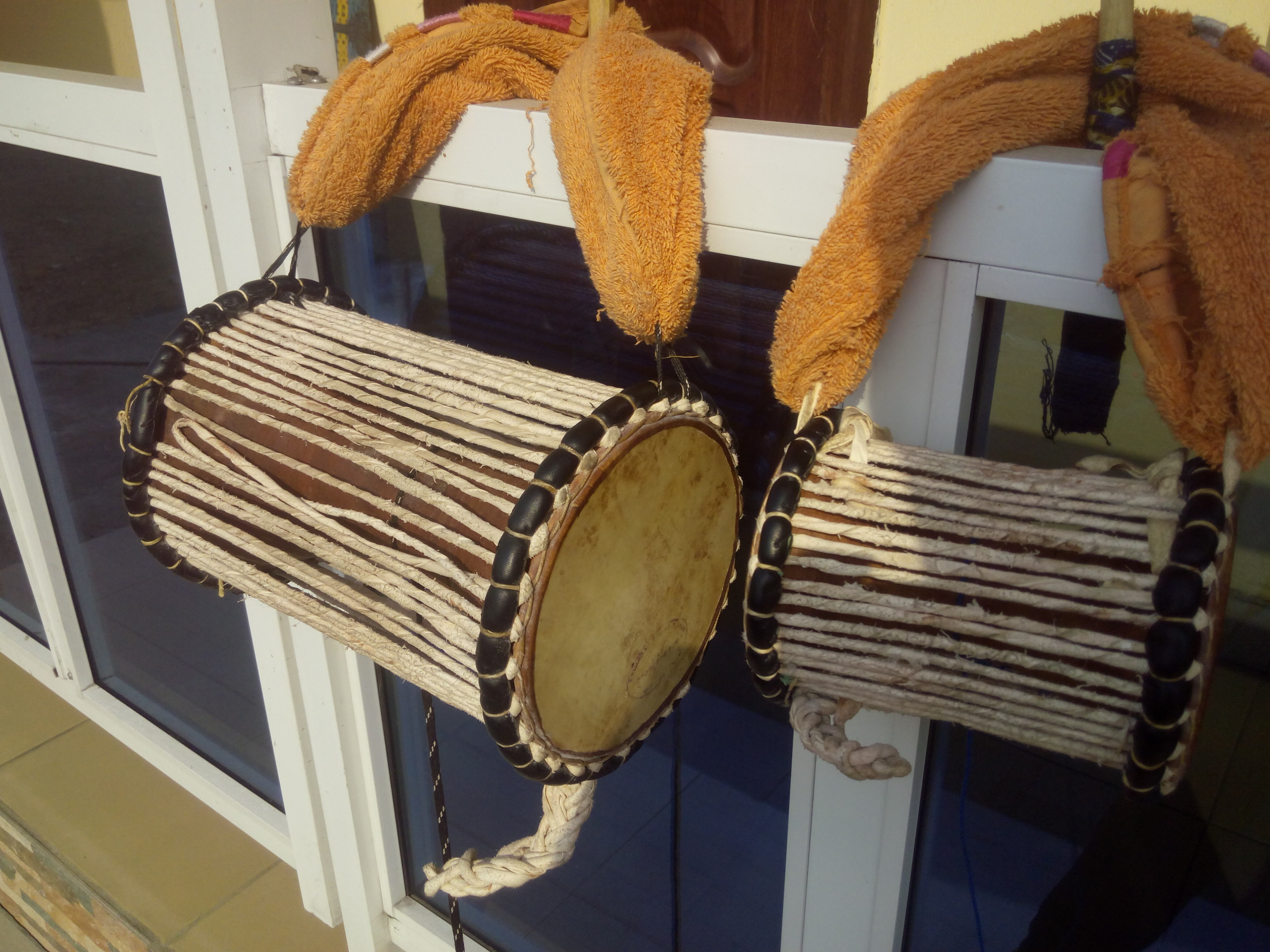 Talking drum is an indigenous instrument in western region of Nigeria, west Africa. The instrument is widely used in the western state of Nigeria such as; Oyo, Osun, Ekiti, Ogun etc. Locally, the name of the instrument is called GANGAN, and this instrument is mostly used during celebrations such as coronations, weddings, naming ceremonies, burial ceremonies etc. Also its been used in churches too. In the olden days, the instrument is been used to call the attention of the chiefs in the palace that the king is coming on its way. This instrument doesn't only serve the purpose of been used in parties, its also been used to talk secretly and to make fun of people.